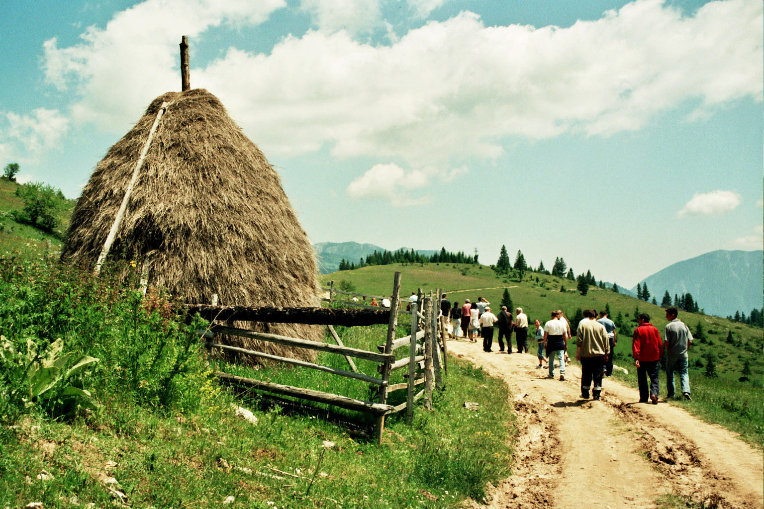 Beauties of Rugova Mountains